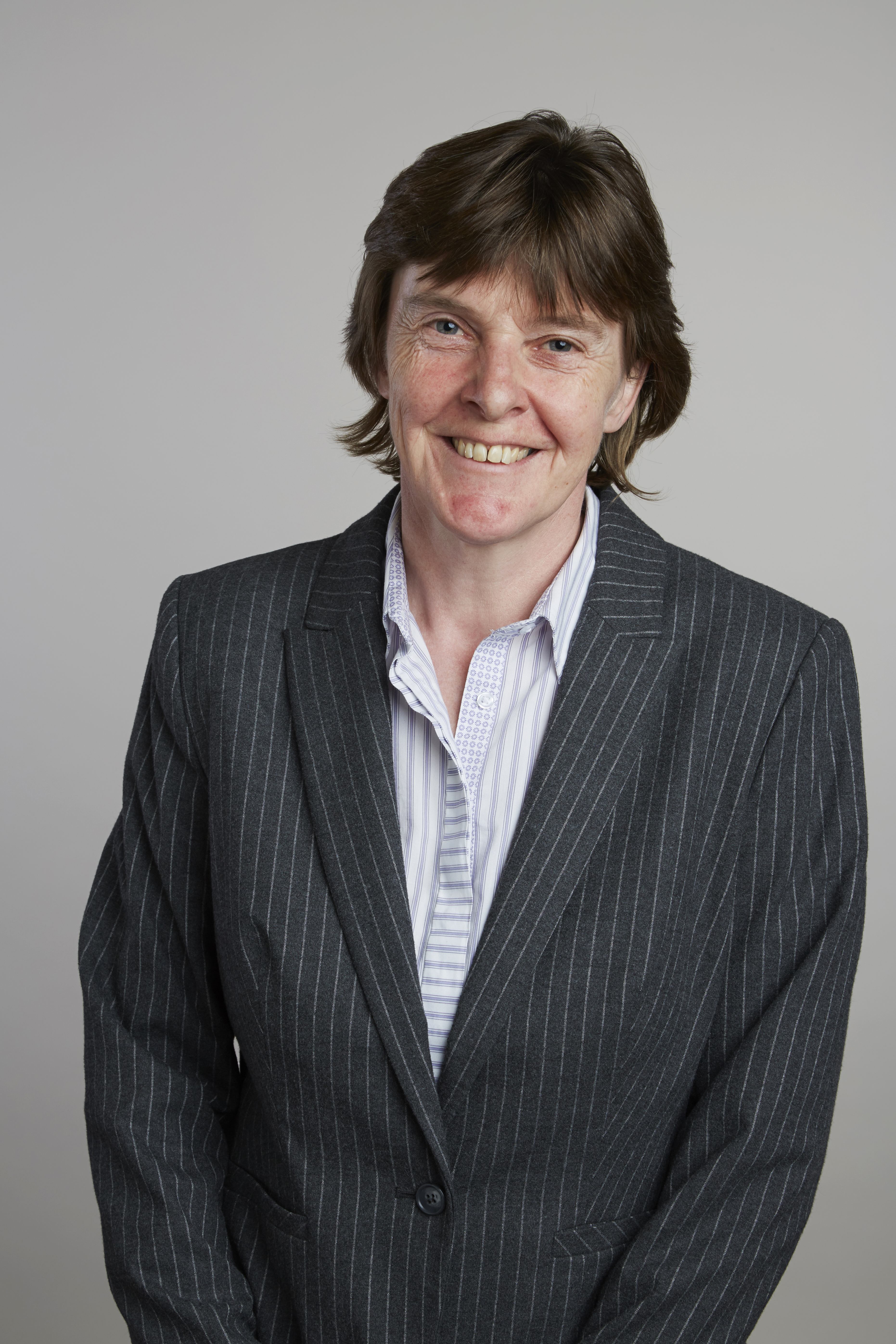 Alison Etheridge is Professor of Probability at the University of Oxford where she holds a joint appointment in the Departments of Mathematics and Statistics and a Fellowship at Magdalen College. She was an undergraduate at New College, and divided her graduate study between Oxford and McGill. She then held research fellowships in Oxford and Cambridge and positions in Berkeley, Edinburgh and Queen Mary University of London before returning to Oxford in 1997. Over the course of her career, her interests have ranged from abstract mathematical problems to concrete applications as reflected in her four books which range from a research monograph on mathematical objects called superprocesses to an exploration (co-authored with Mark Davis) of the percolation of ideas from the groundbreaking thesis of Bachelier in 1900 to modern mathematical finance. Much of her recent research is concerned with mathematical models of population genetics, where she has been particularly involved in efforts to understand the effects of spatial structure of populations on their patterns of genetic variation. Attribution: The Royal Society